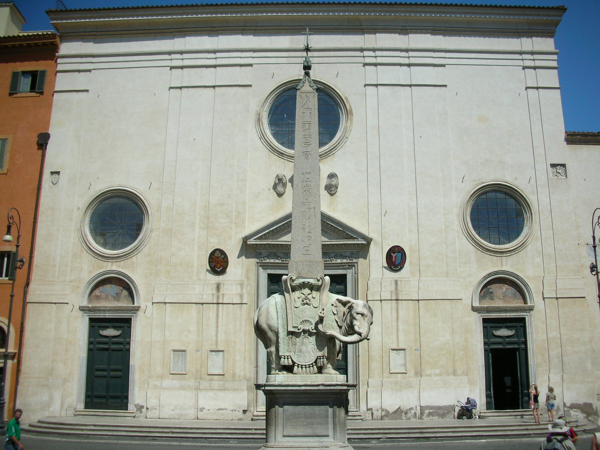 Façade with obelisk, Santa Maria sopra Minerva, Rome